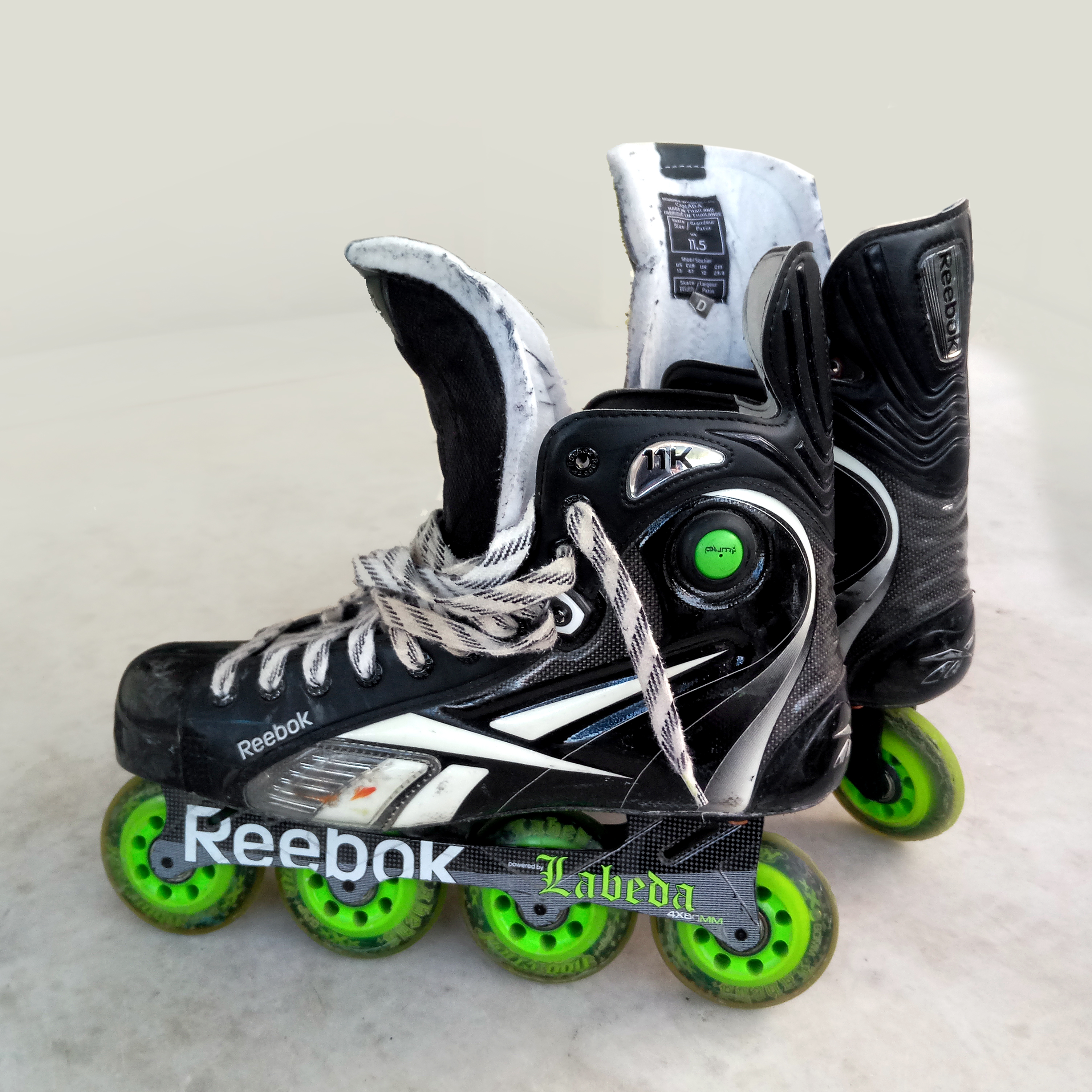 Reebok inline skate 11K from 2011. Upper: Heatmoldable boot (Rigid / hardboot - Composite - high cut - Pro Armour IV) with foam inside and pump system. Frame: Labeda Lightweight Stiff 4x80mm with Reebok Addiction XXX Grip X-Soft 80 mm 76A wheels and ABEC 7 bearings.